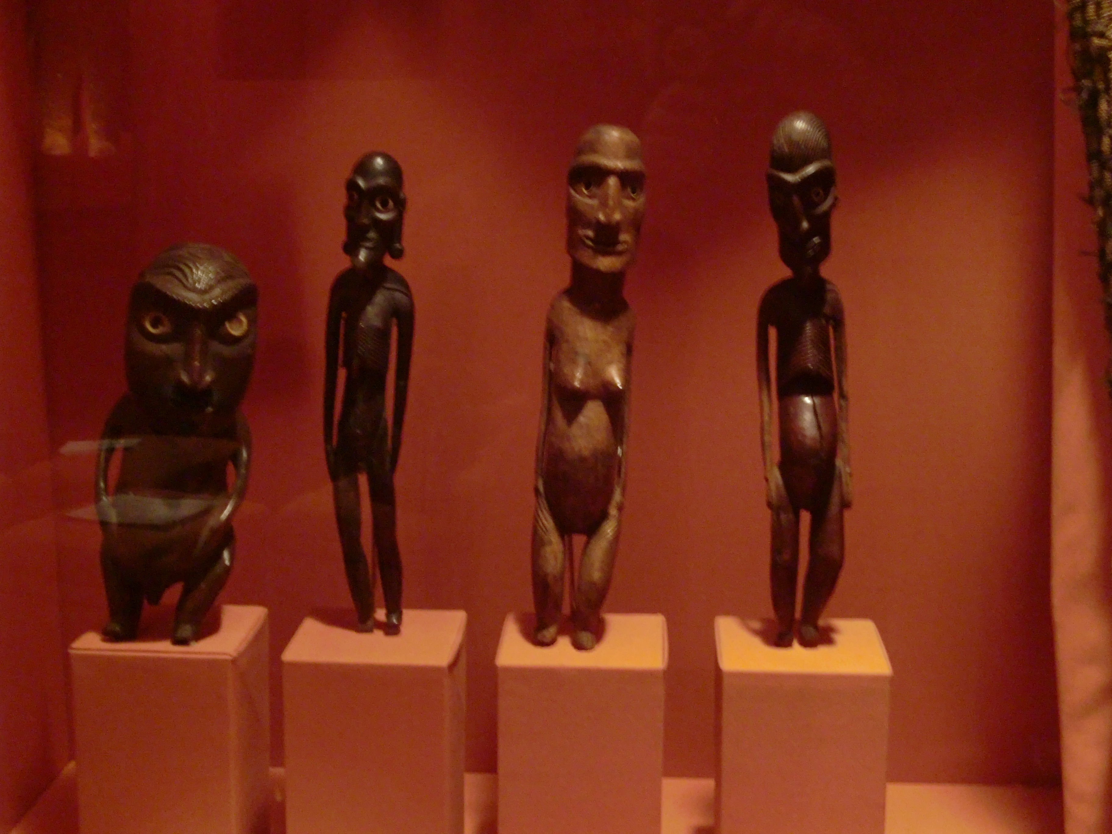 four Moai Kavakava from Easter Island with thanks to ES:Museo Etnogáfico Juan B. Ambrosetti for permission to take photos of their collection